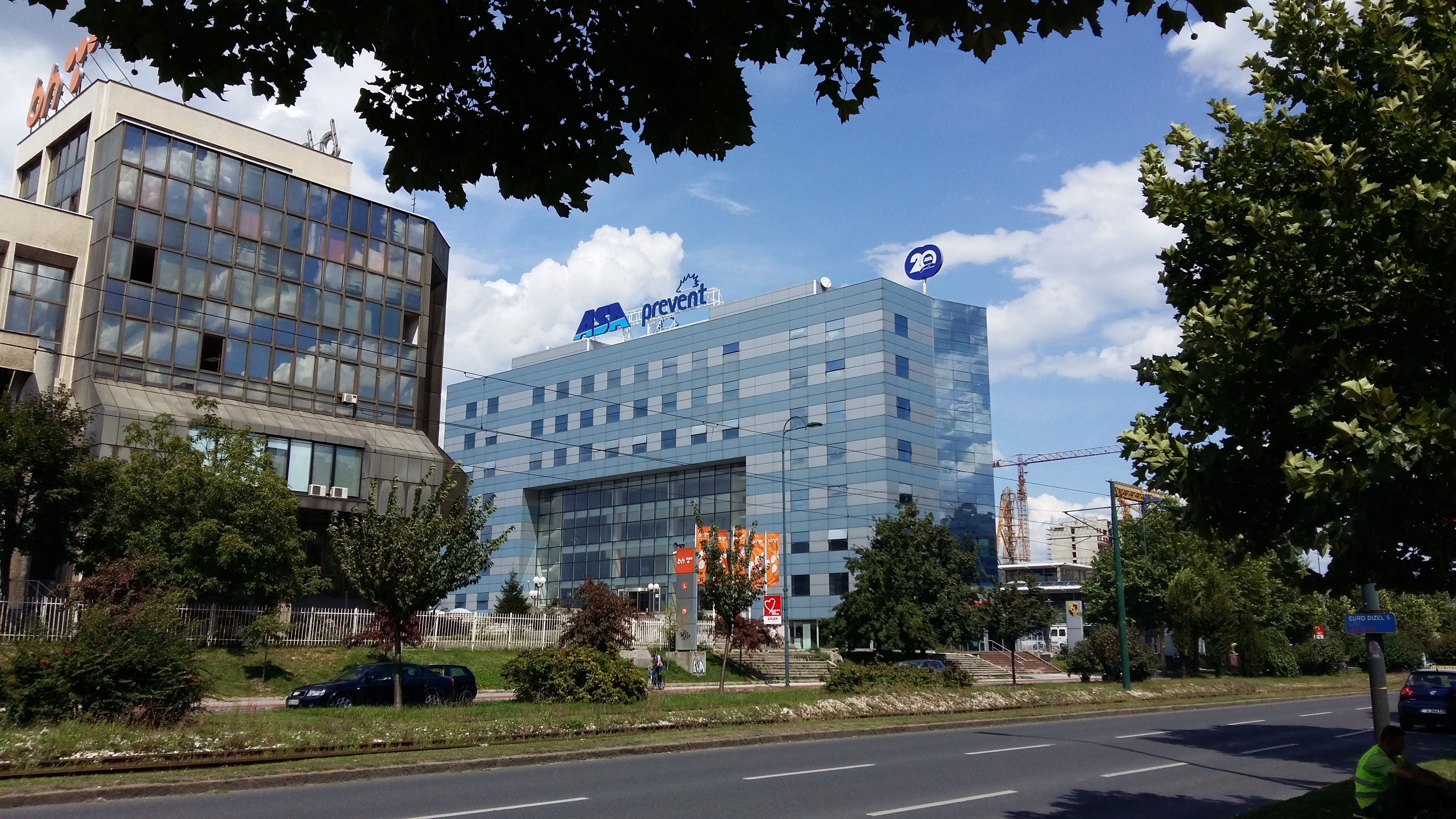 The Prevent BH headquarters in Nedžarići, Sarajevo